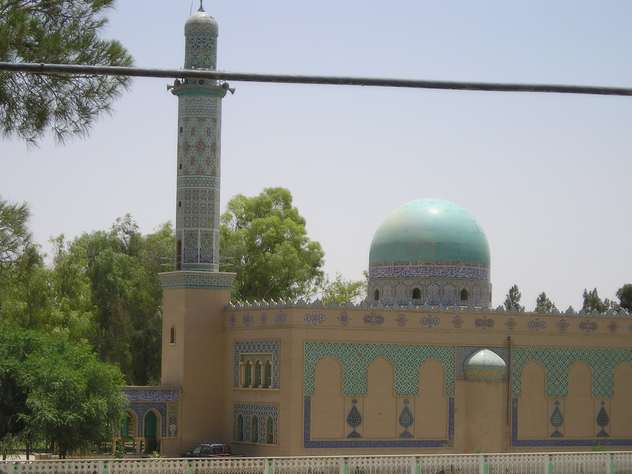 Mosque in Lashkar Gah, which is the capital city of Helmand Province in Afghanistan